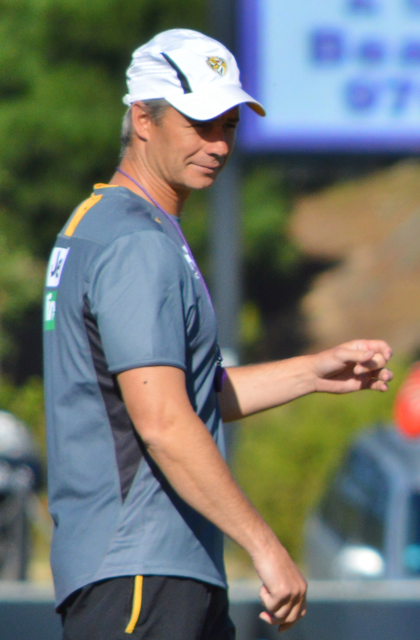 Blake Caracella in his role as Richmond assistant coach in December 2016